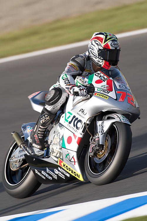 Yuki Takahashi at 2008 Motegi